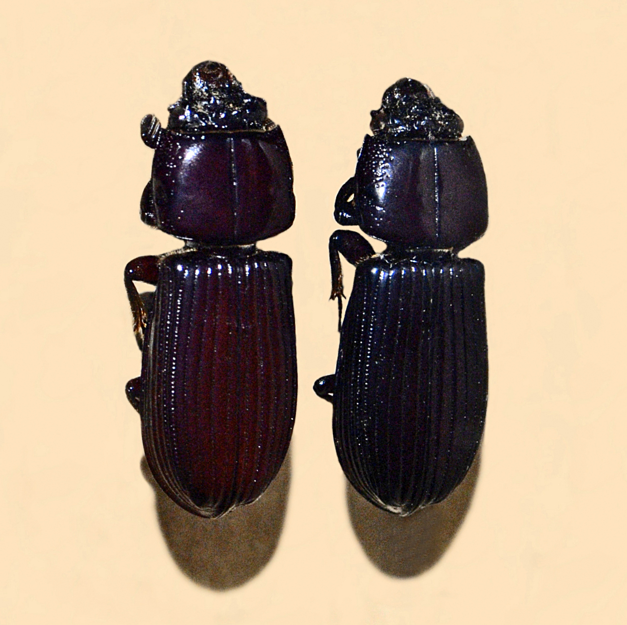 Didimus parastictus from Bioko Island. Museum specimen